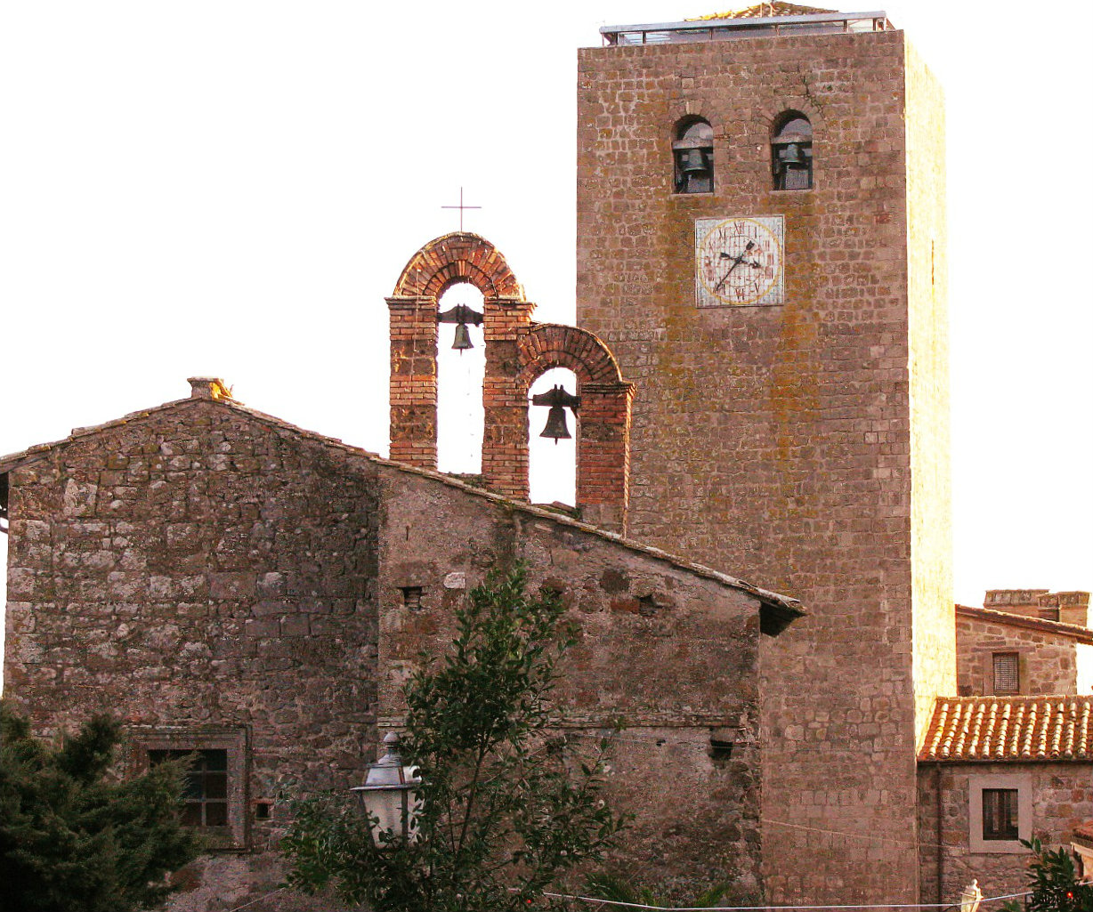 Torre dell'orologio bassano